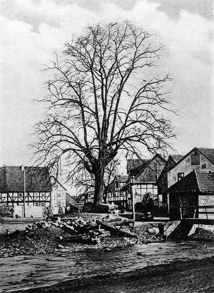 Vollmarshausen, 1910